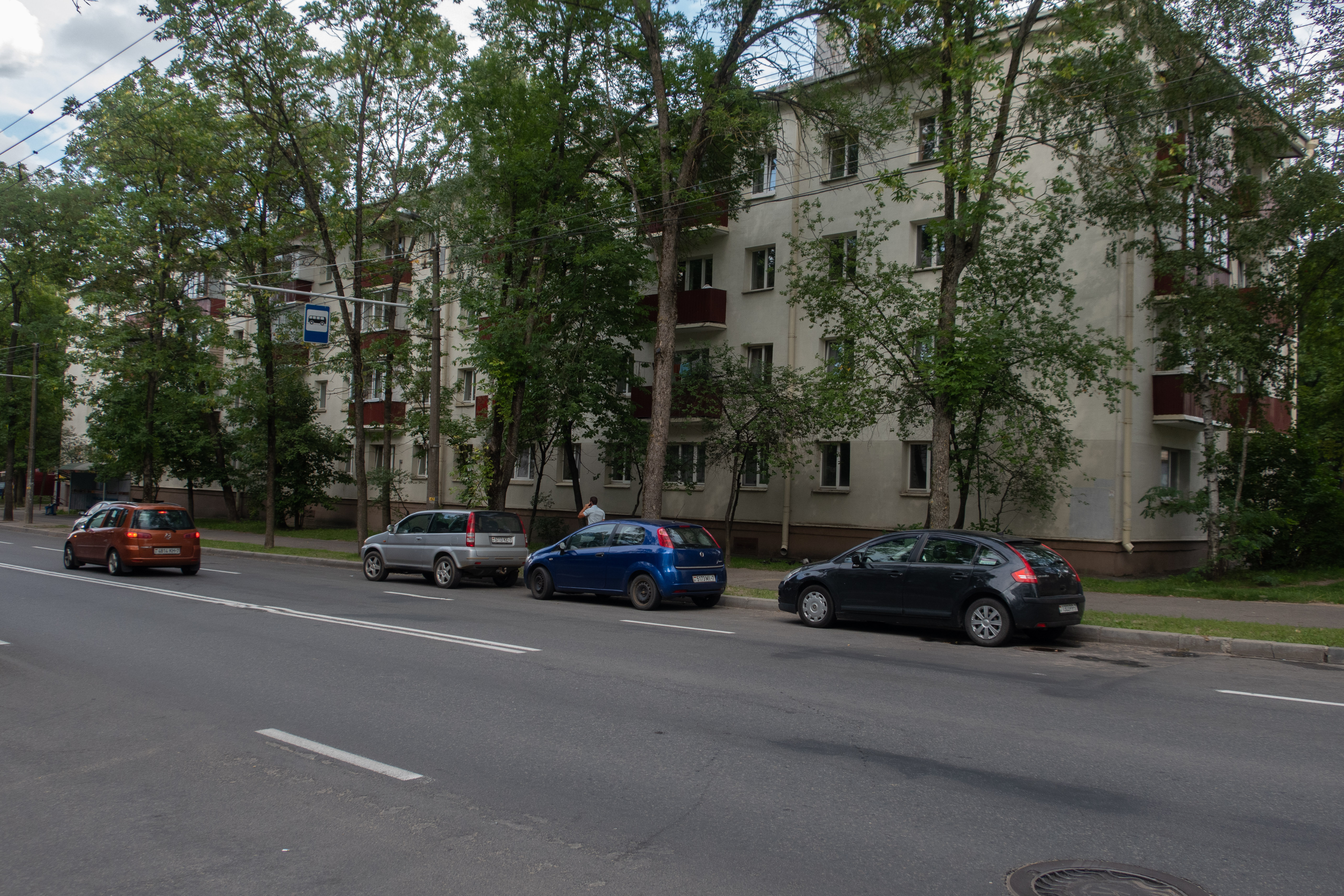 Knoryna street. Minsk, Belarus